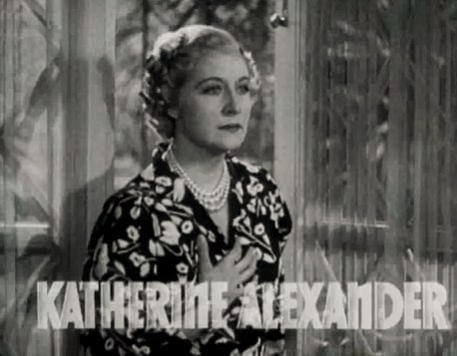 Katharine Alexander (aka Katherine Alexander) in the trailer for the film Moonlight Murder (1936) - trailer (cropped screenshot)